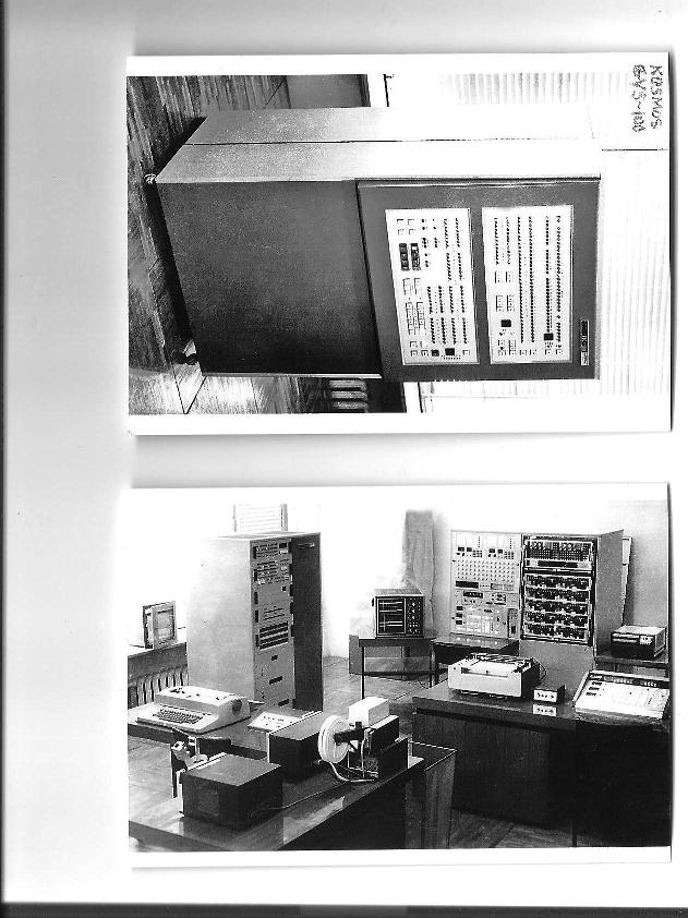 Thus photo is from the M.Pupin Inst. archive( Marketing Division IMP), see; w or